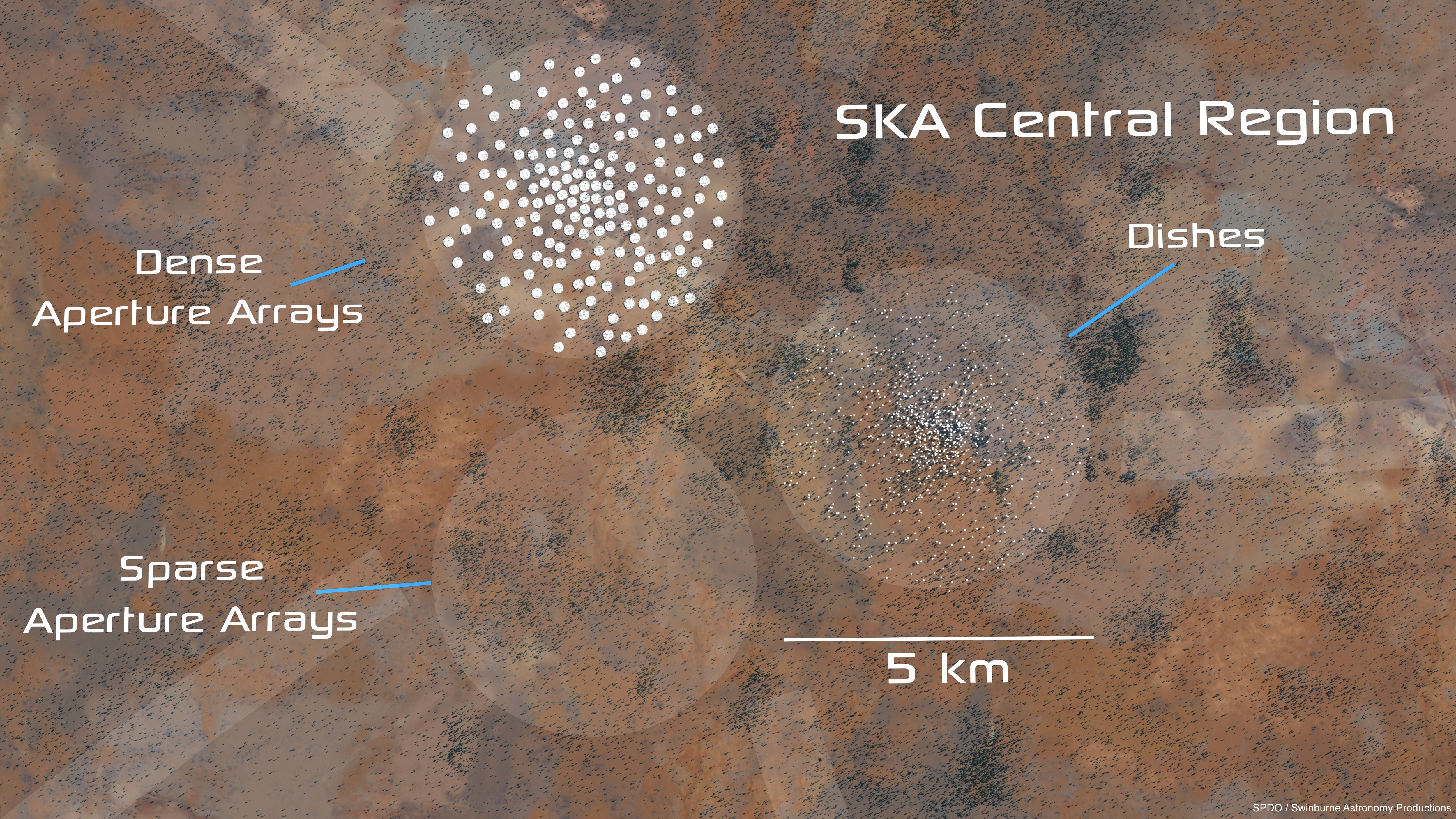 An aerial overview of the central region of the SKA with the three 5km diameter cores of Antennas, Dense Aperture Arrays and Sparse Aperture Arrays.